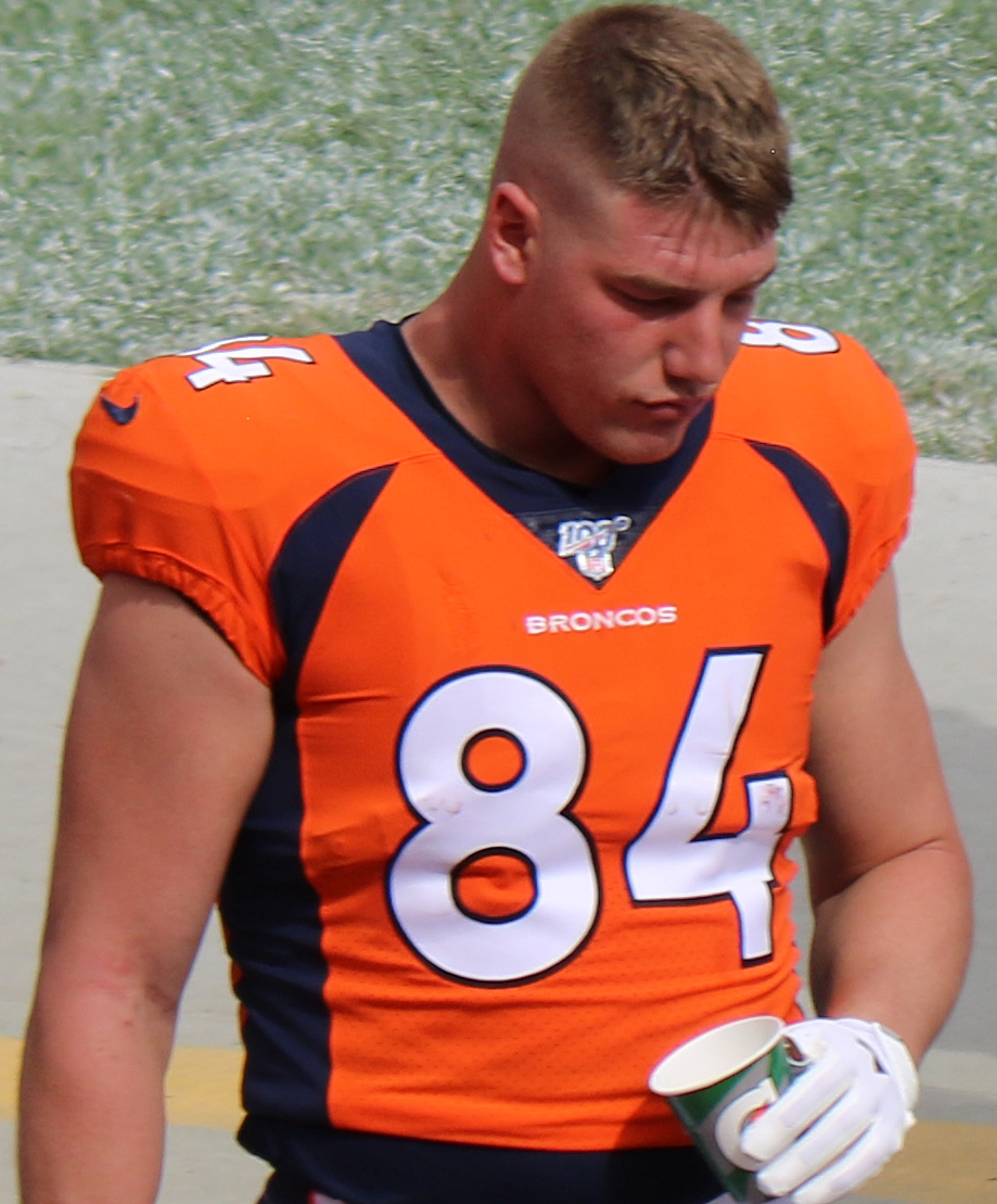 Troy Fumagalli, a National Football League player.